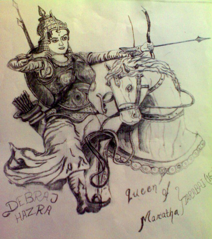 Tarabai (1675–1761 CE)